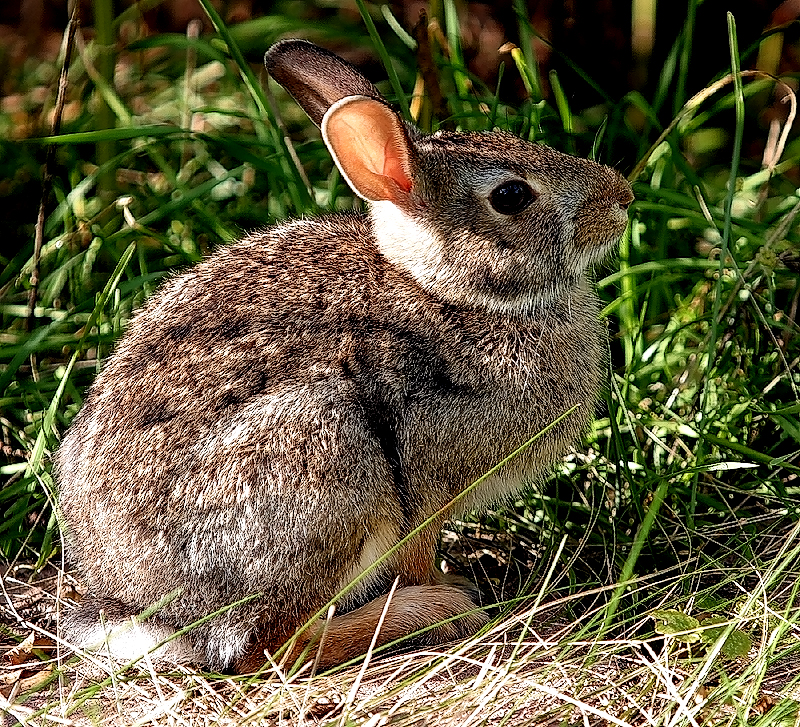 Cottontail rabbit Taken by Paul Henjum summer of 2005.